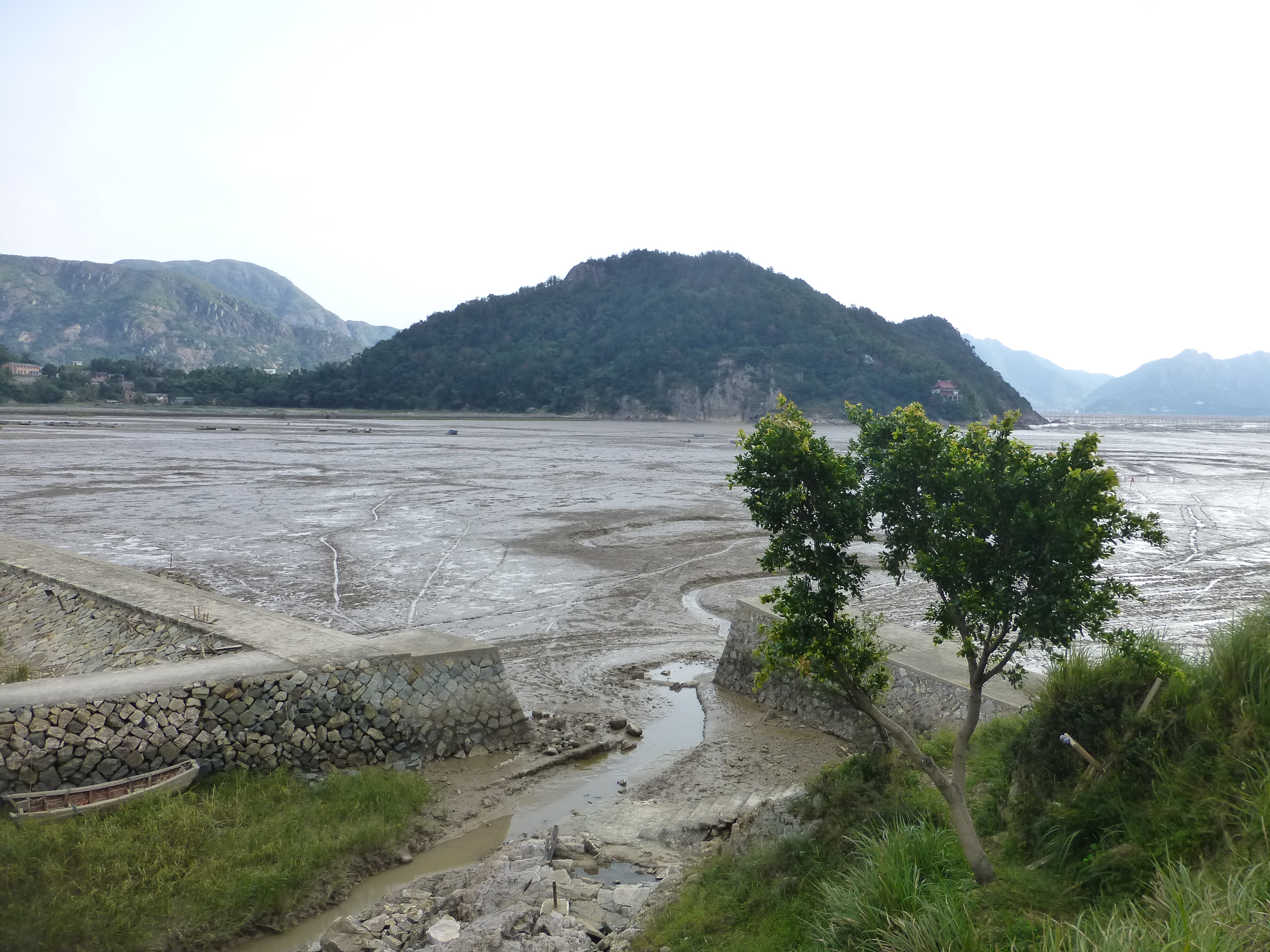 On the coast of Dayu Bay in or near Longsha Village (formerly, township: 龙沙乡), in Chixi Town, Cangnan County, Zhejiang, China.